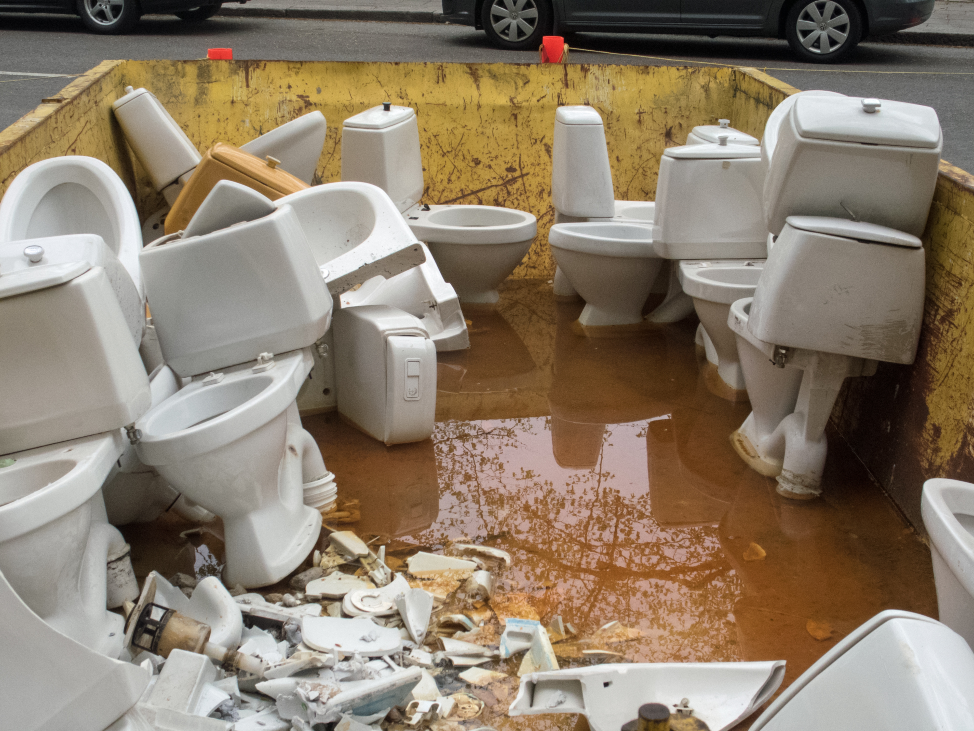 HVAC renovation in a Finnish block of flats. WC bowls on a dumpster ready to be taken away.